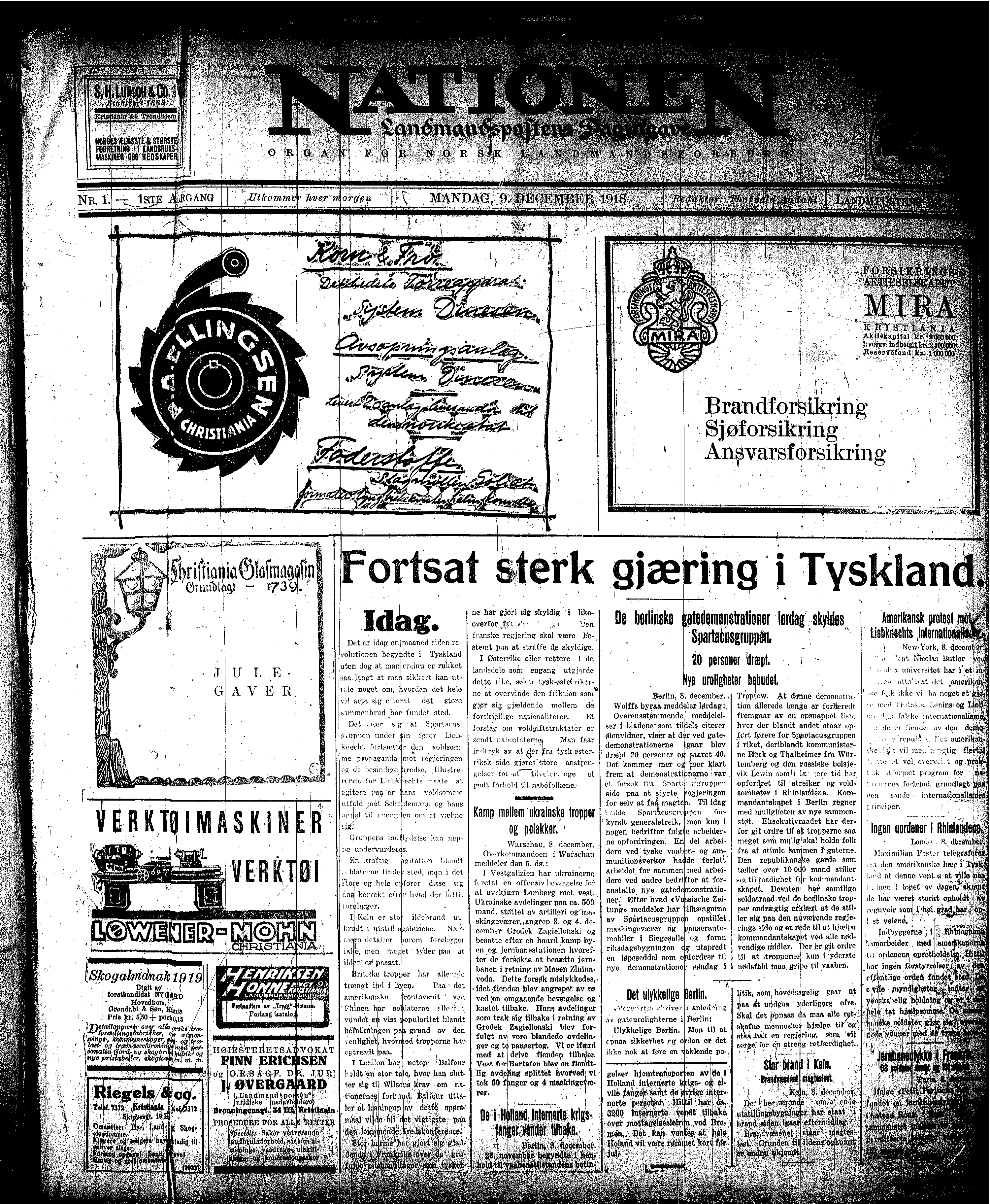 First edition of the Norwegian newspaper ‘Nationen’.